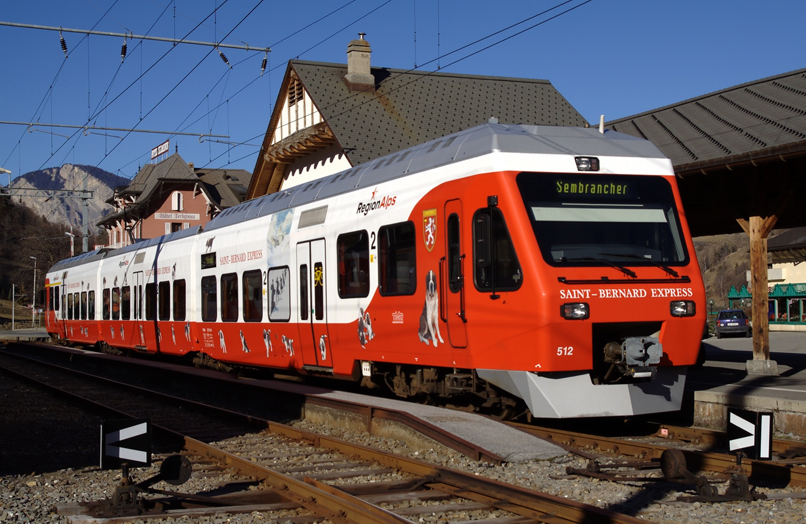 RABe 527 512 "NINA" operated by Transport de Martigny et Régions at Orsières.